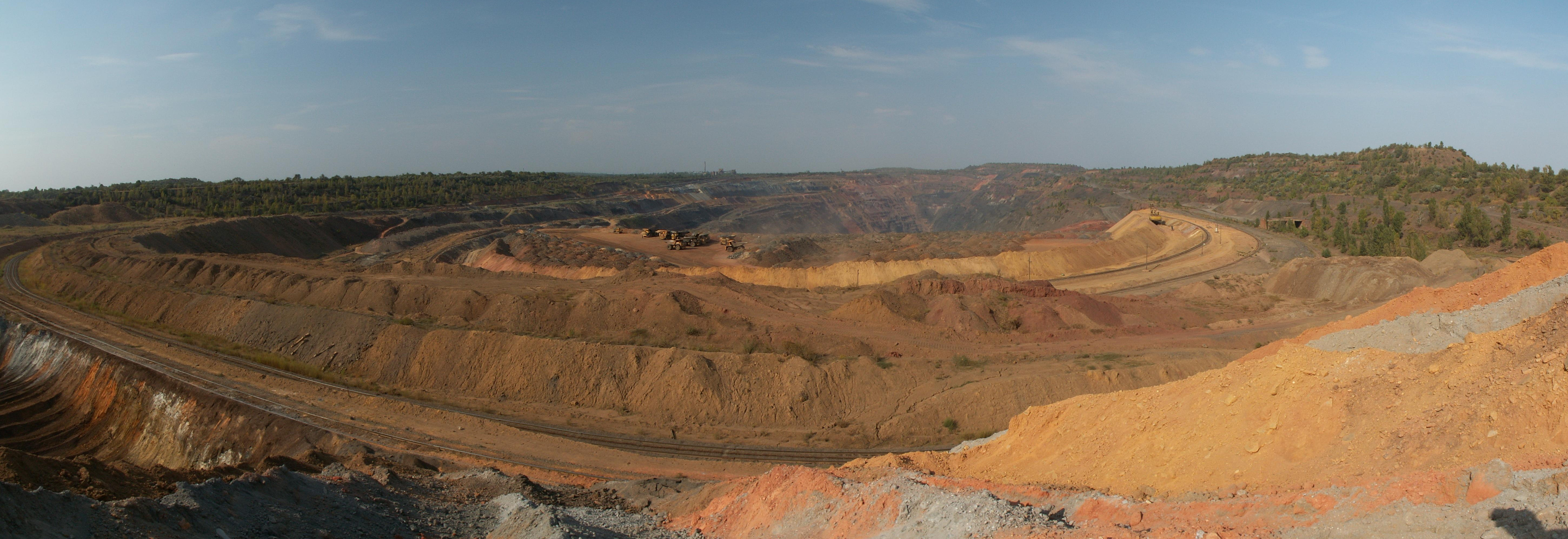 Open pit mine for iron ore, Severnaya near Krivoi Rog, Ukraine.